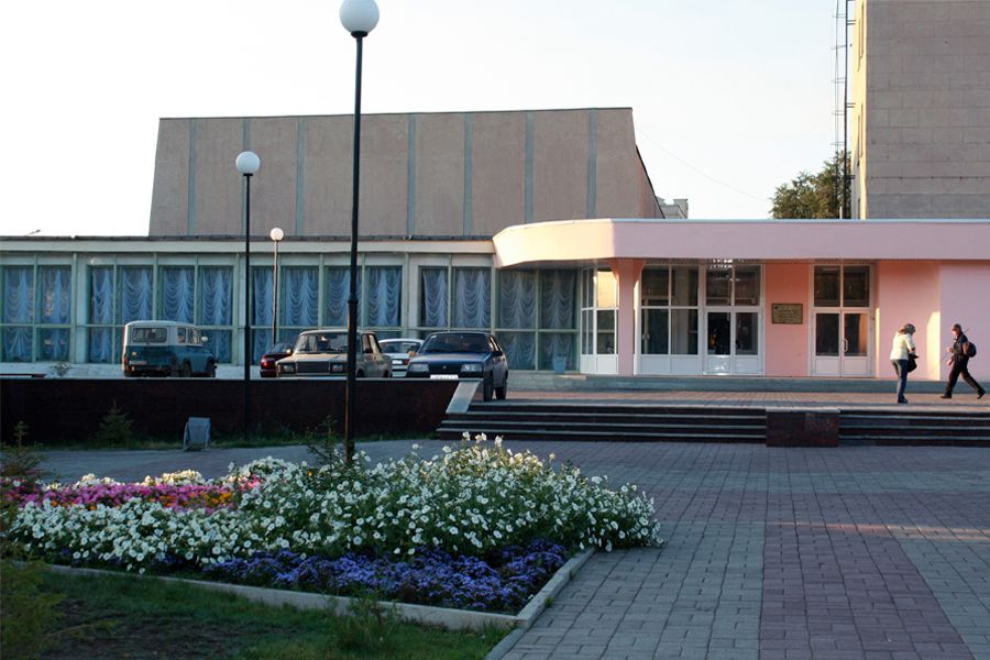 Magnitogorsk State Conservatory (Academy), named after M. I. Glinka Russia, Magnitogorsk city